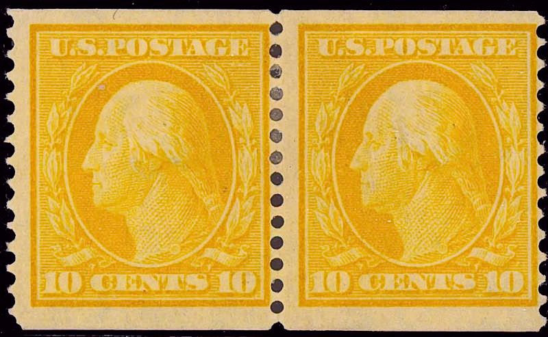 US Postage stamp, Washington-Franklin issue of 1909, coil stamp pait